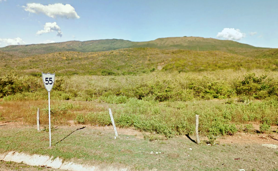 Tasajero mountain